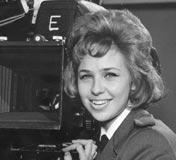 Thore Skogman and Anita Lindblom.